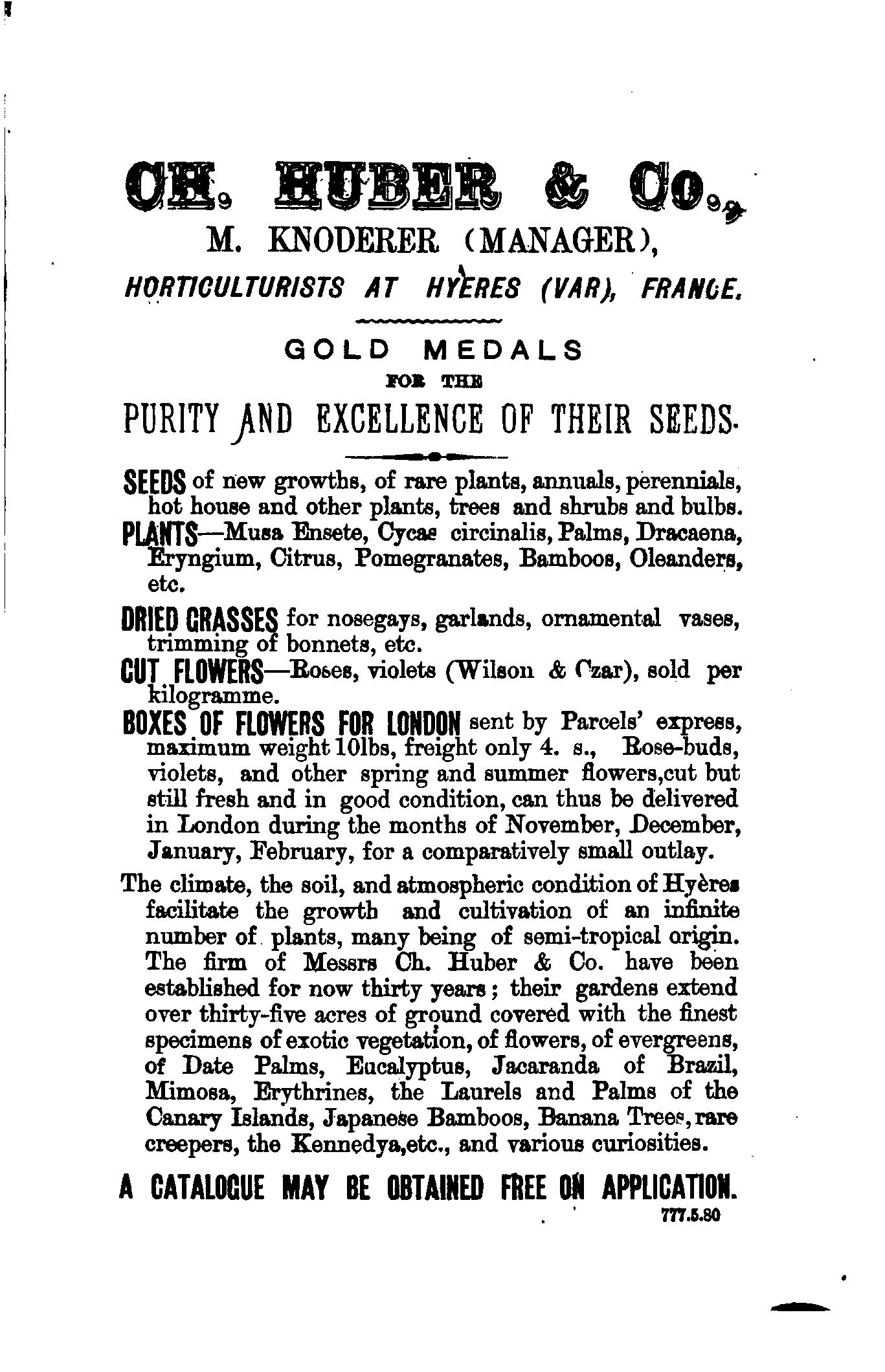 affiche commerciale de Huber et Cie